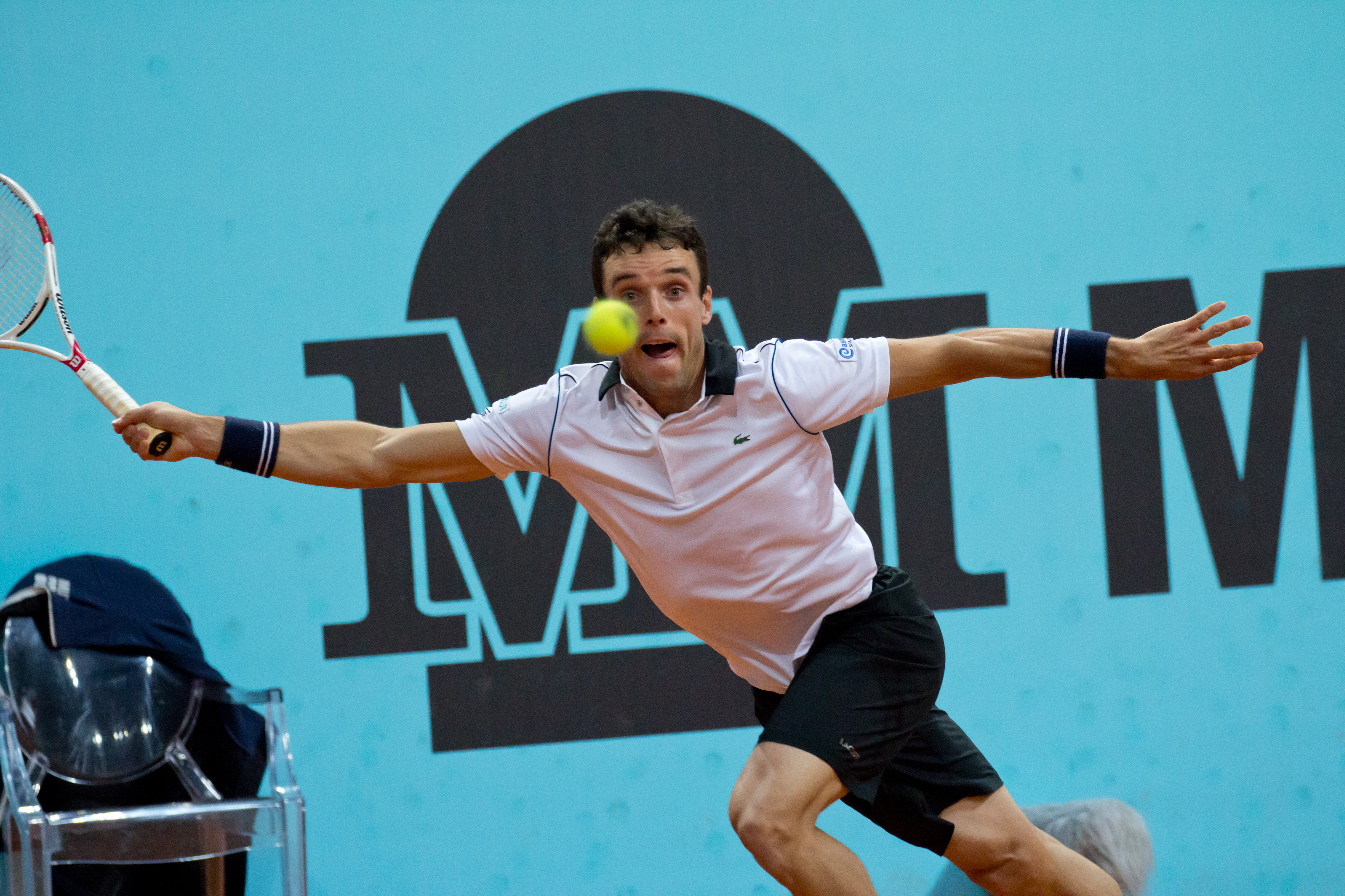 Roberto Bautista at the Madrid Open 2015, Madrid, Spain.